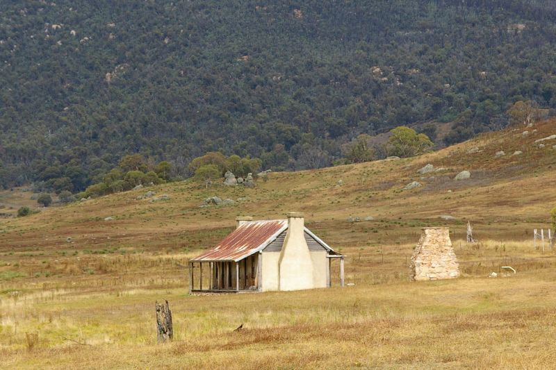 Orroral Valley walk - Leaving the old homestead